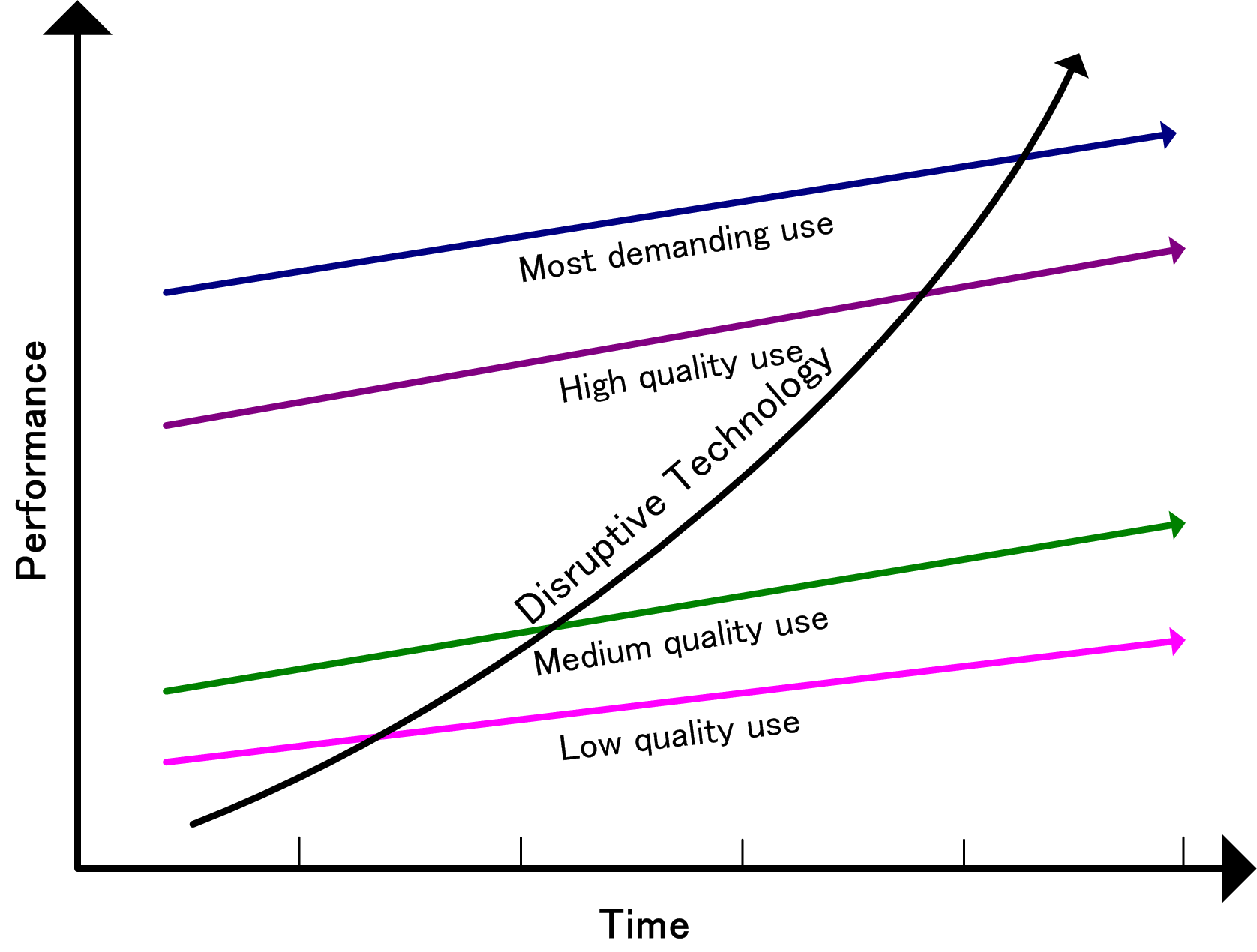 Disruptive Technology Graph